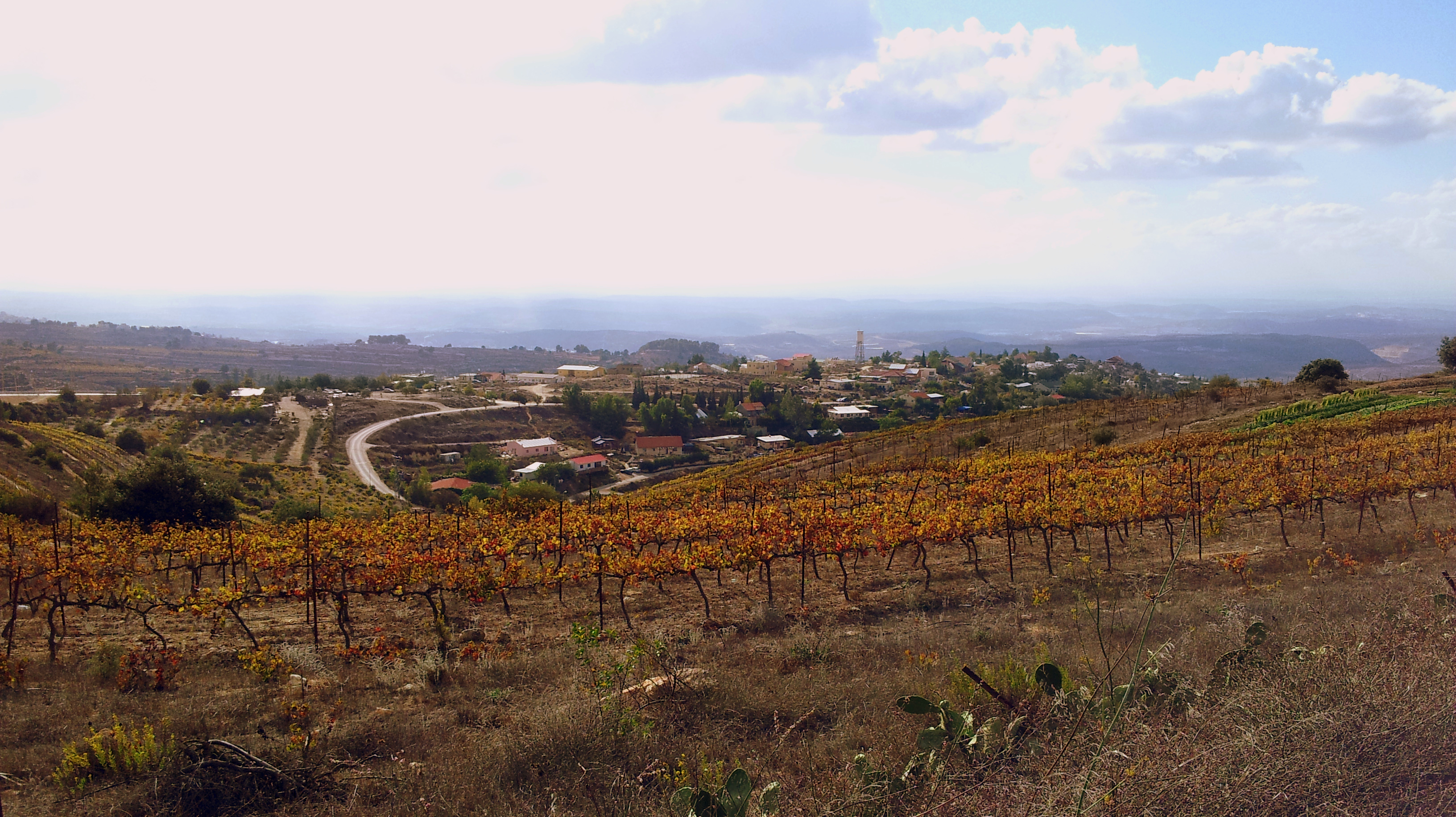 Bat Ain, occupied Palestinian territories Gush Etzion